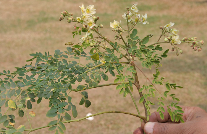 Sonjna Moringa oleifera in Kolkata, West Bengal, India.